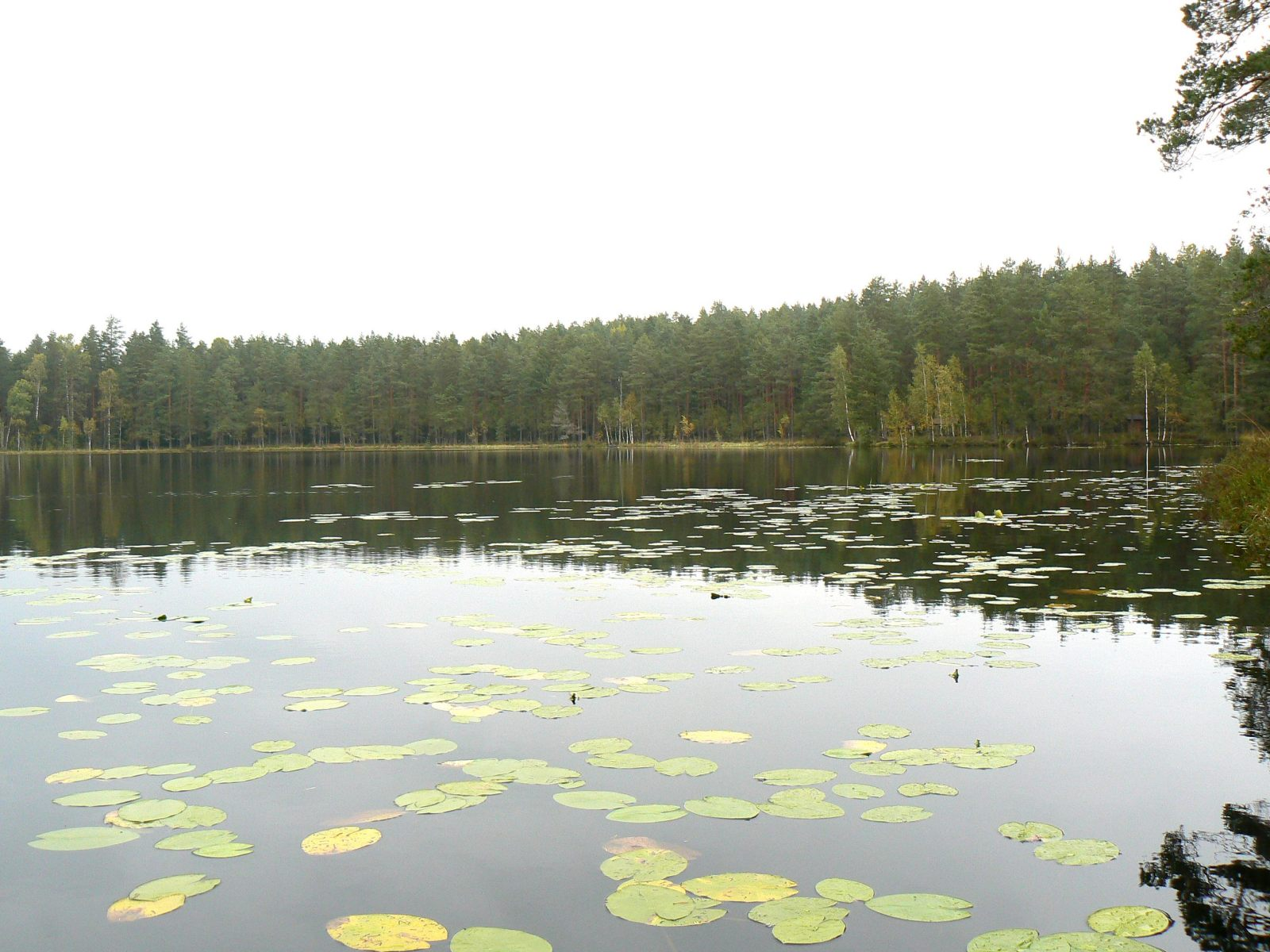 Lake Lasa in Estonia